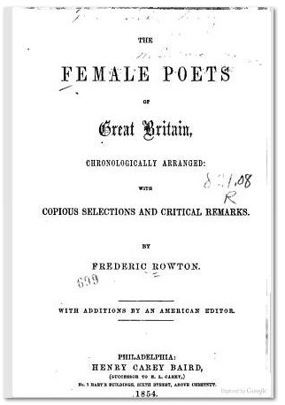 Book Cover